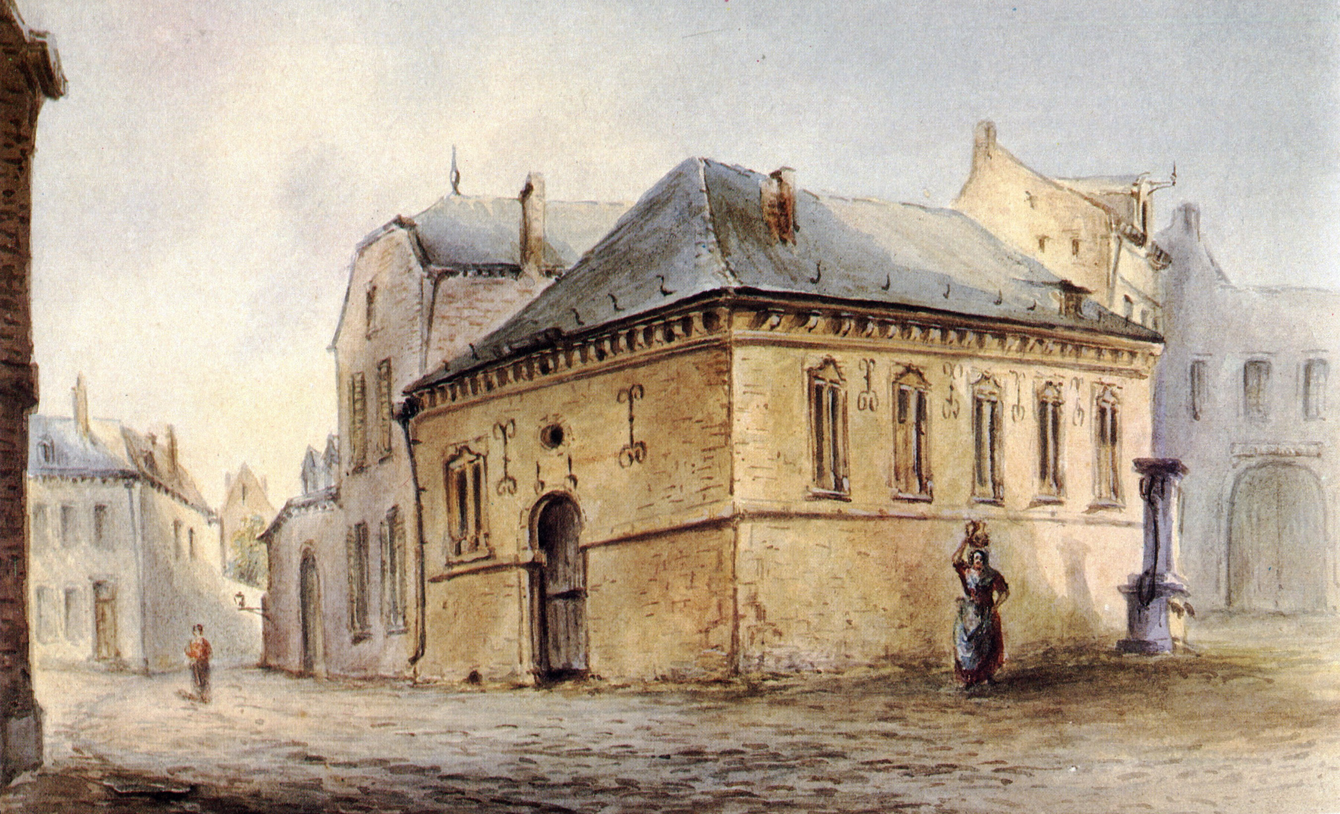 Horse stables for sick horses of the Maastricht garrison at Keizer karelplein. Before 1794 probably the horse stables of the chapter and provosts of Saint Servatius. Watercolour attributed to Jules Lefebvre, 3rd quarter 19th c.